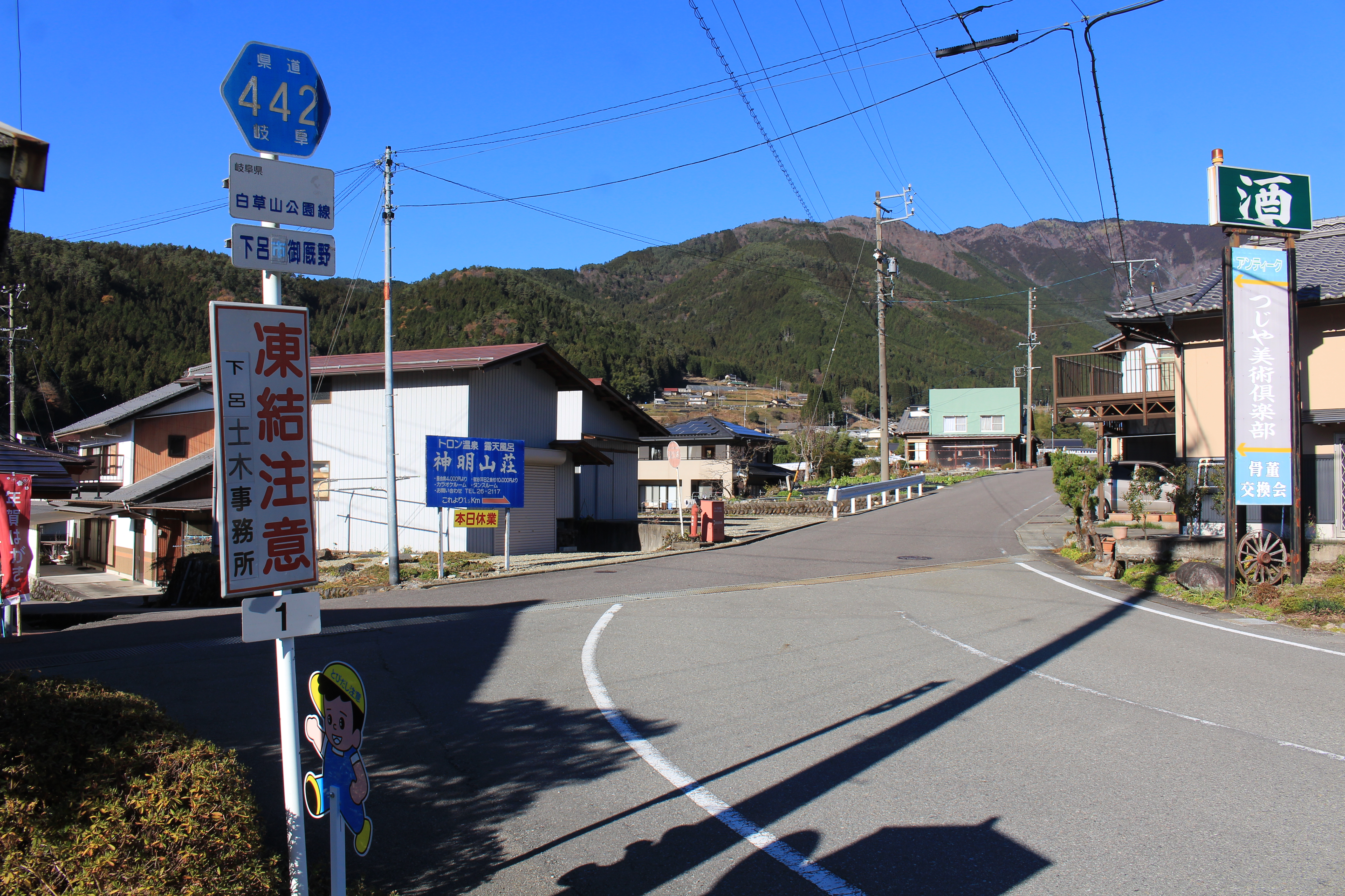 Gifu Prefectural Road Route 442 in Mimayano, Gero, Gifu prefecture, Japan.